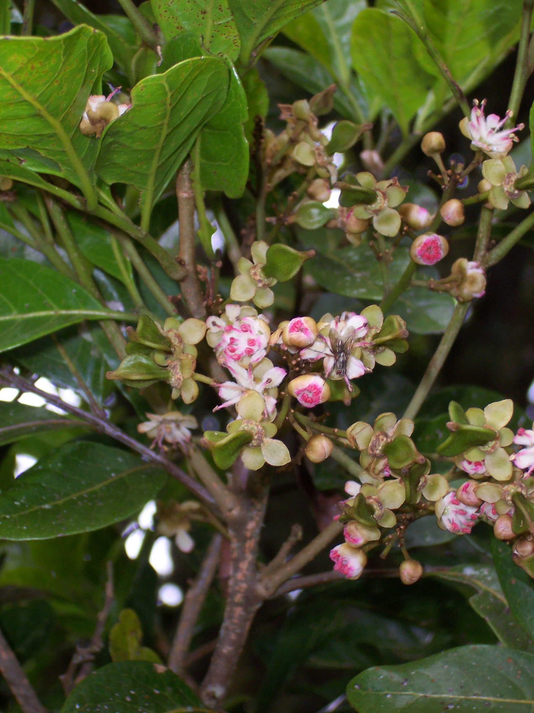 Tan georges (Molinaea alternifolia) - flowers and young fruits Photo : B.navez - 10 NOV 2005 - Réunion Island (Le Tévelave)